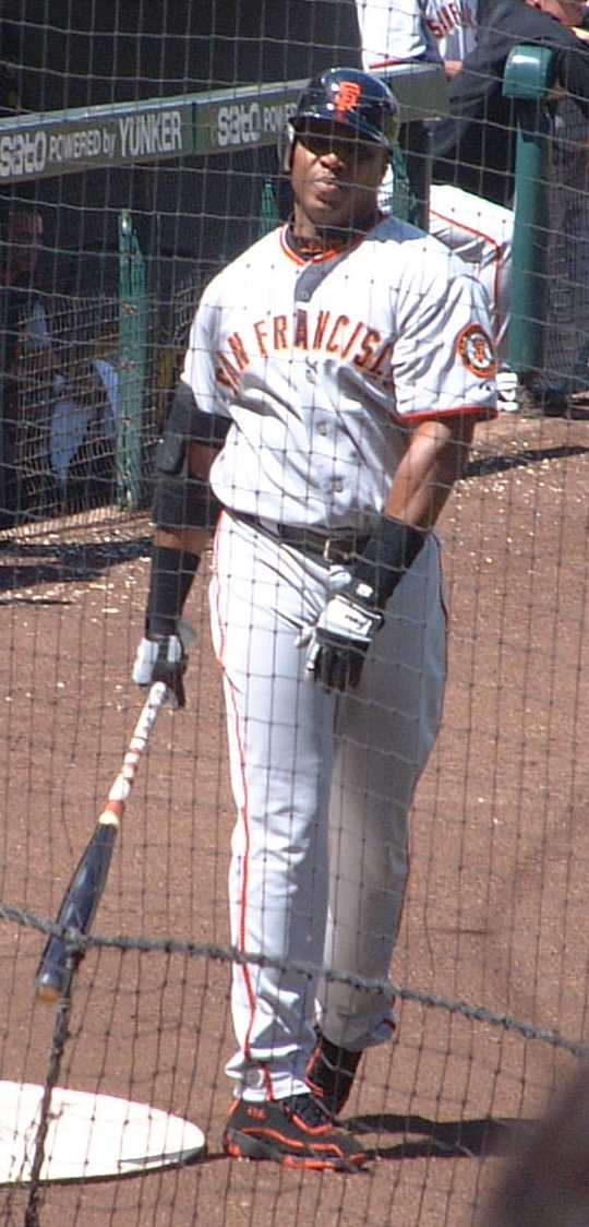 Barry Bonds at Seattle.